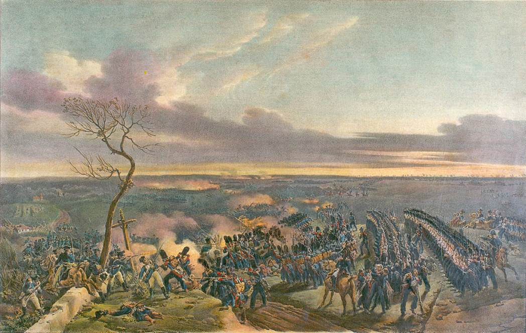 Battle of Monmirail in France, 11 February 1814. Lithographie.